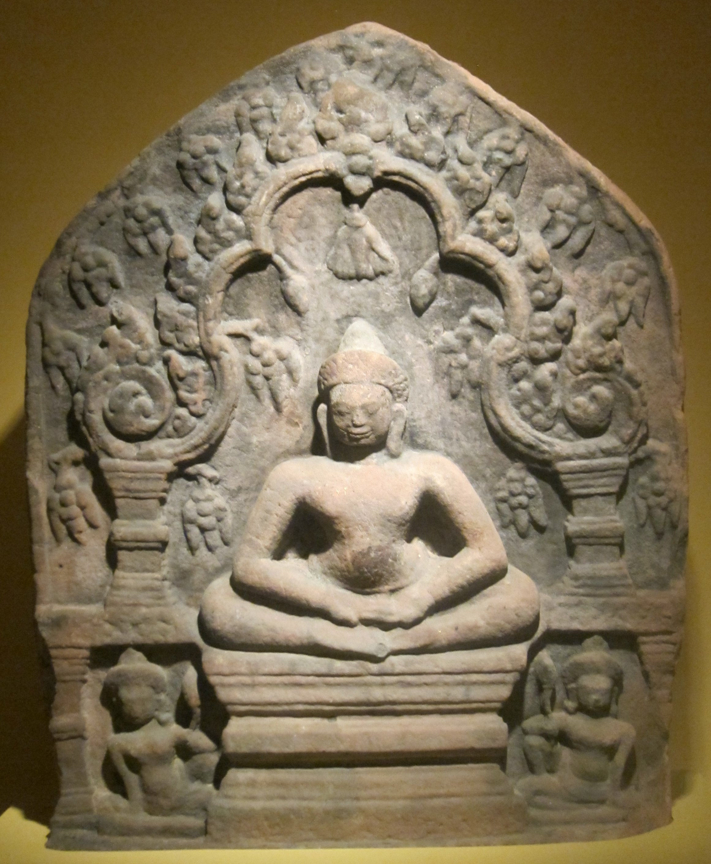 Stele with seated Buddha from Cambodia or northeast Thailand, Khmer, 12th century, sandstone, Honolulu Academy of Arts